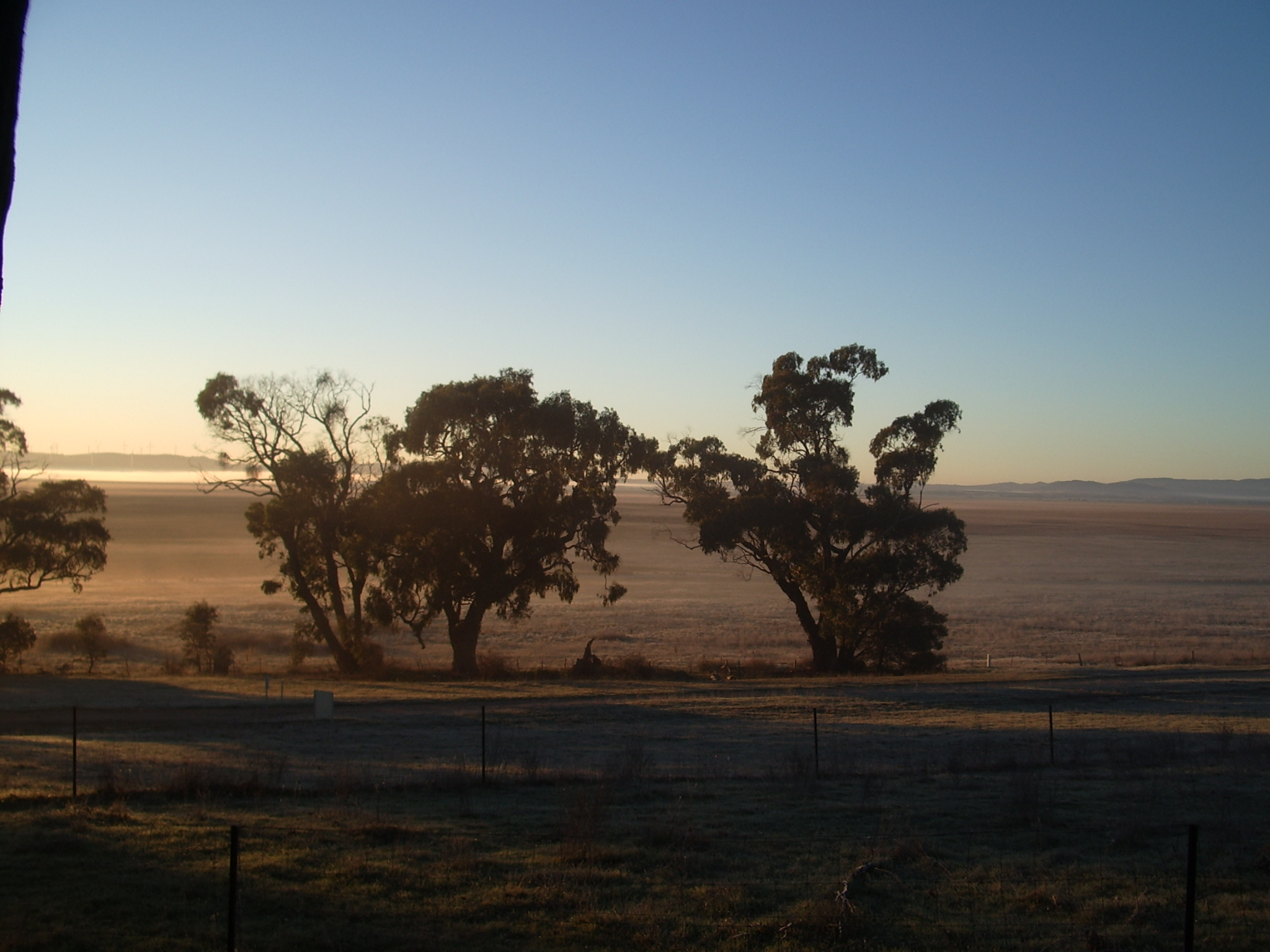 Normally the lake is dry because of evaporation; early morning.